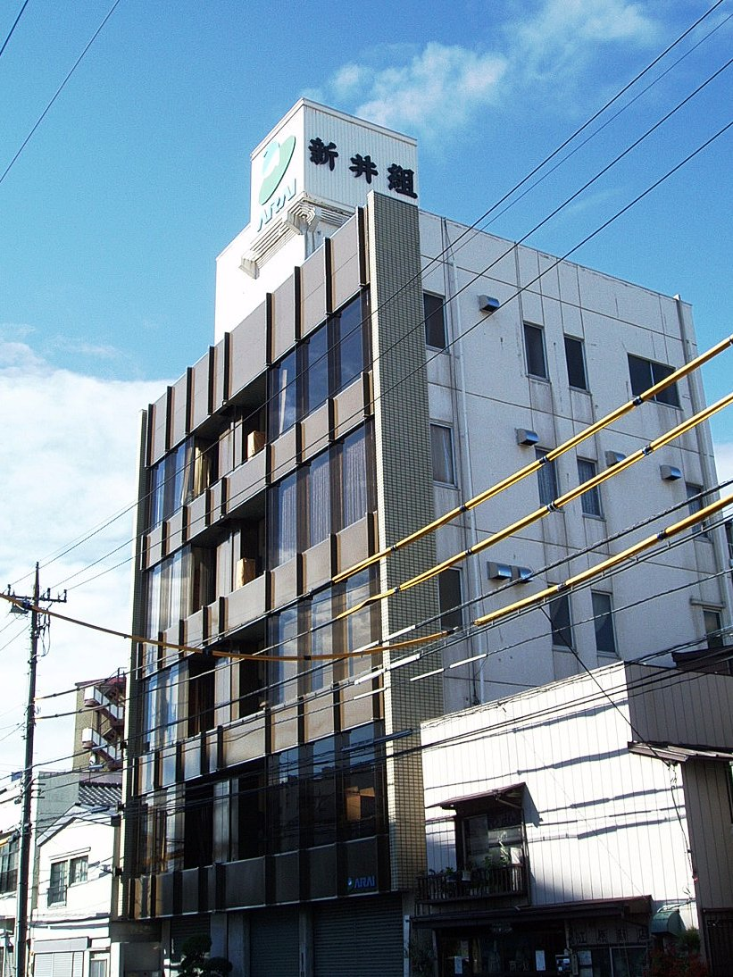 The headquarters office of ARAIGUMI Co., Ltd., a construction company in Adachi-ku, Tokyo, Japan.